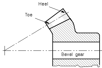 Heel toe